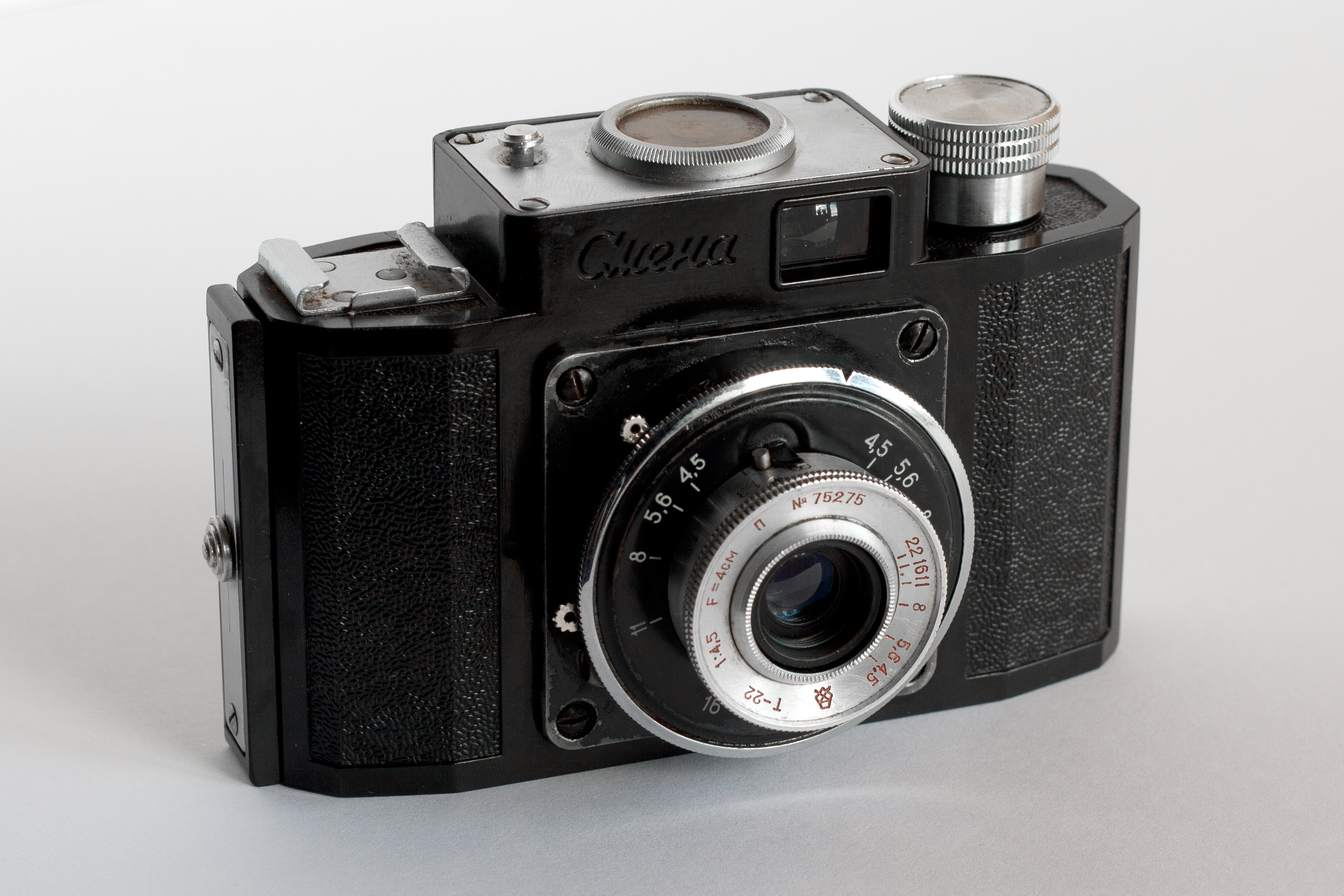 Smena 1 camera